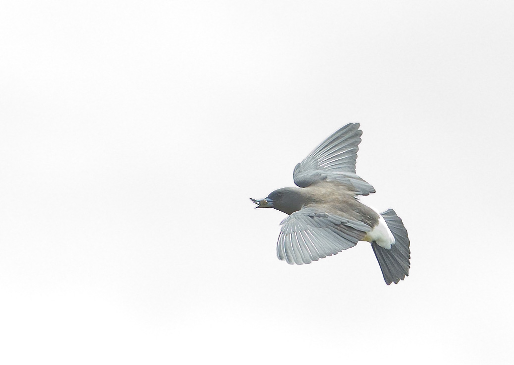 masked woodswallow and hornet Wyvuri Station North Queensland